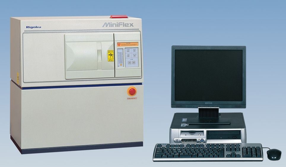 Image of 3rd generation, introduced in 1995, Rigaku MiniFlex+ benchtop X-ray Diffractometer (XRD). Shown with external PC computer.